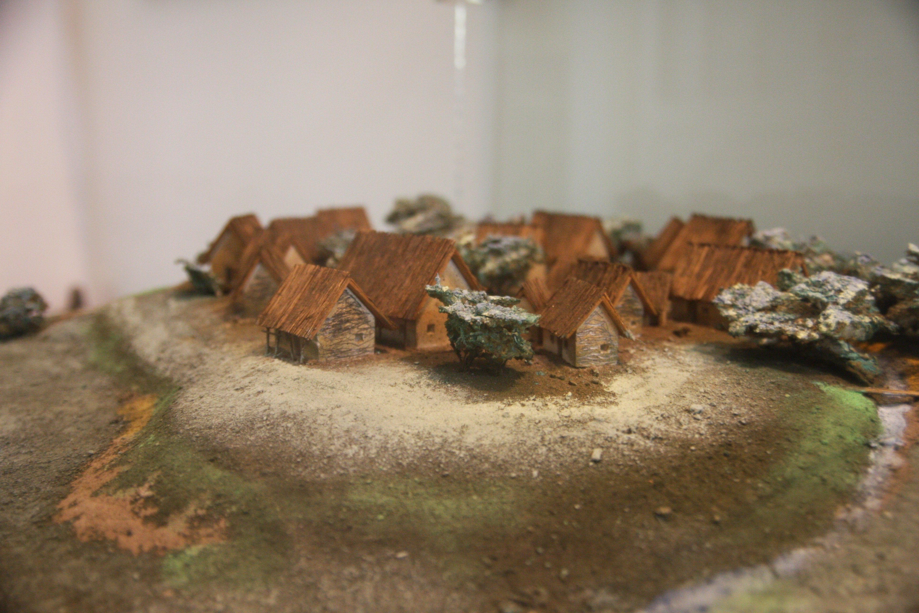 Scale Reproduction of a Cucuteni Village. Piatra Neamt Museum.